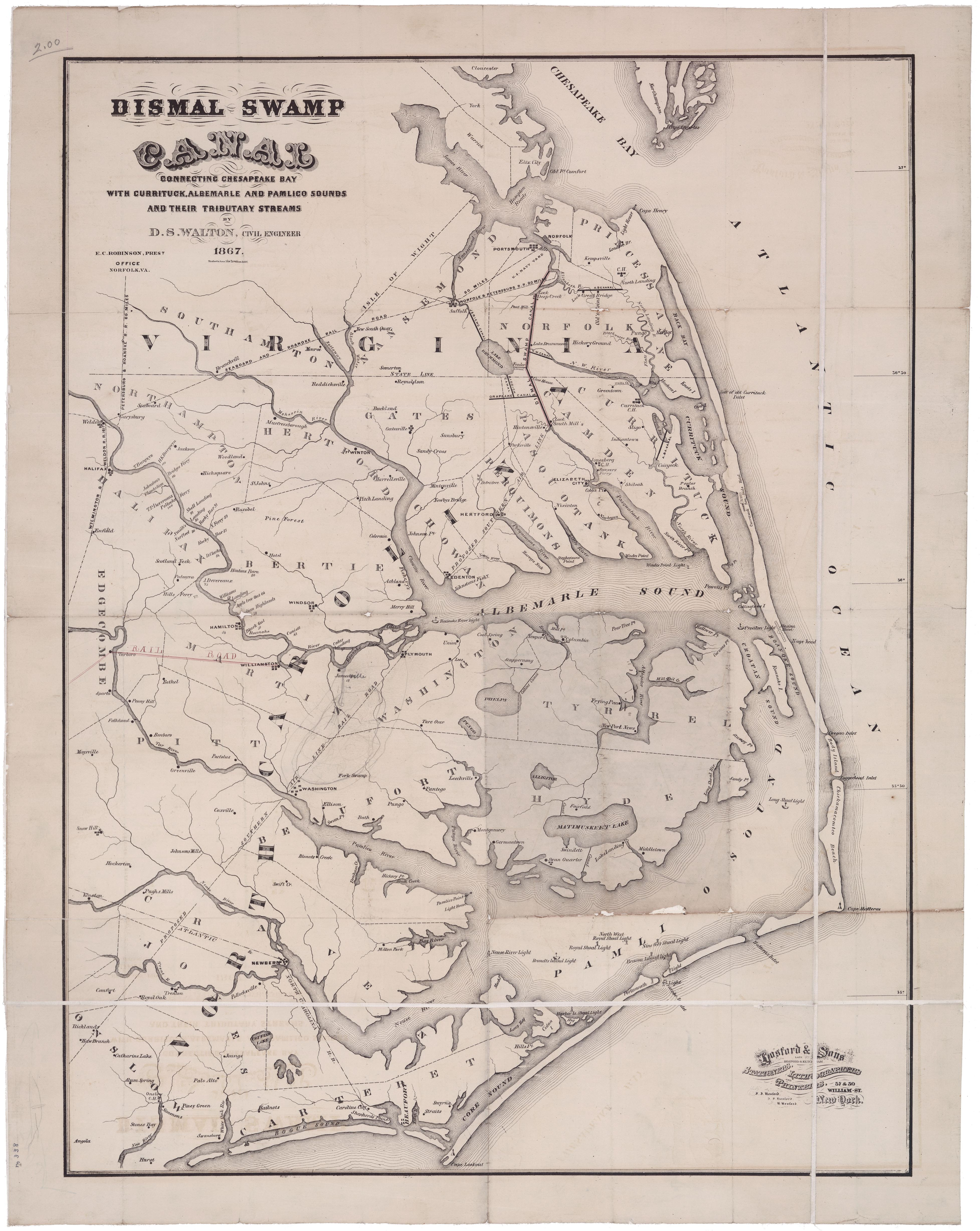 "Map of the Dismal Swamp Canal," by D. S. Walton. Civil Engineer, 1867. Courtesy of the University of North Carolina Libraries.